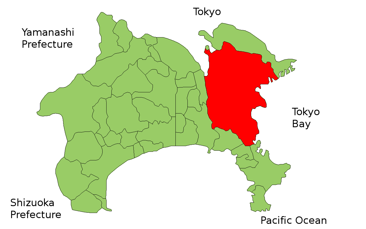 Map of Yokohama in the Kanagawa Prefecture, Japan